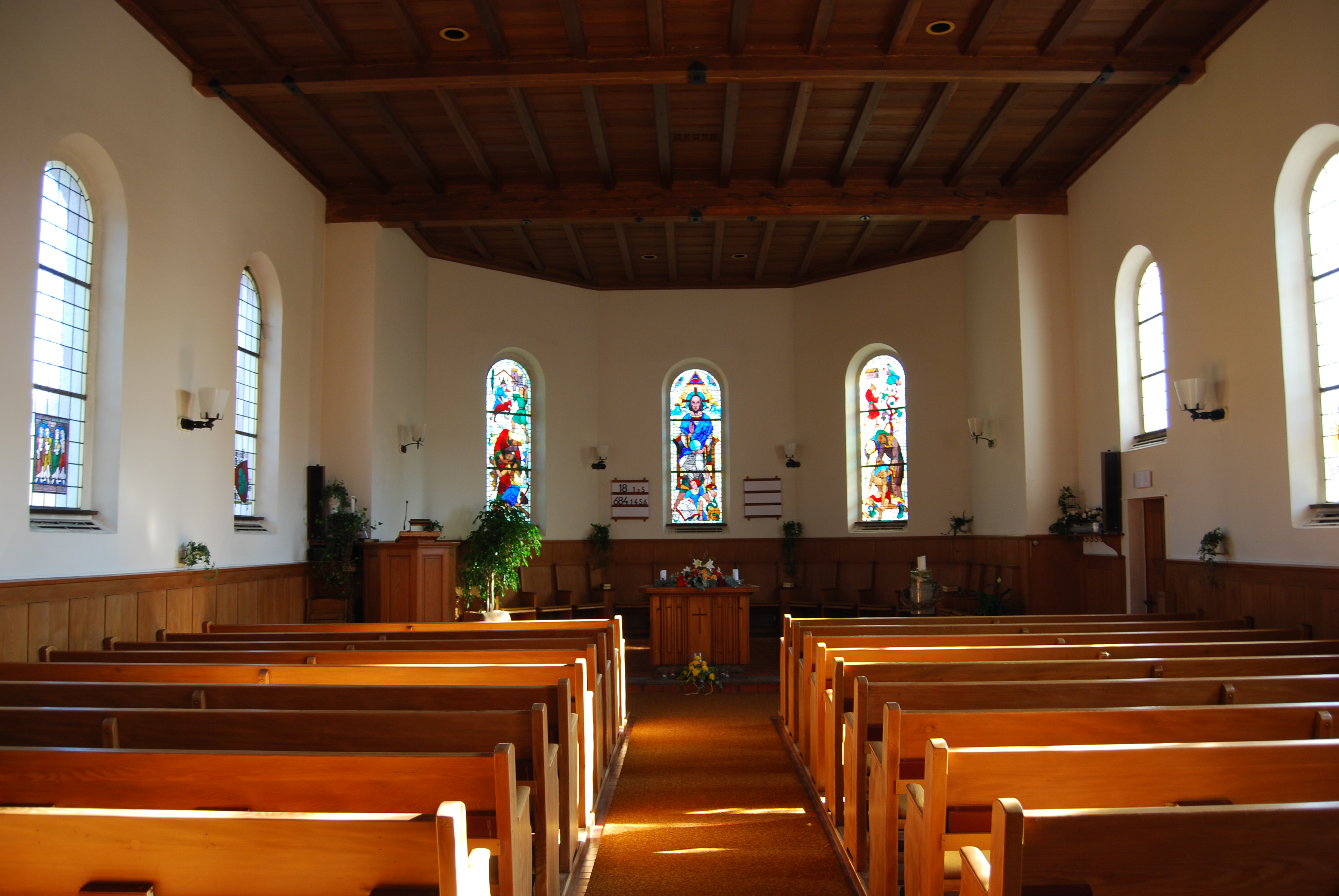 Protestant Church of Wyssachen, canton of Bern, Switzerland